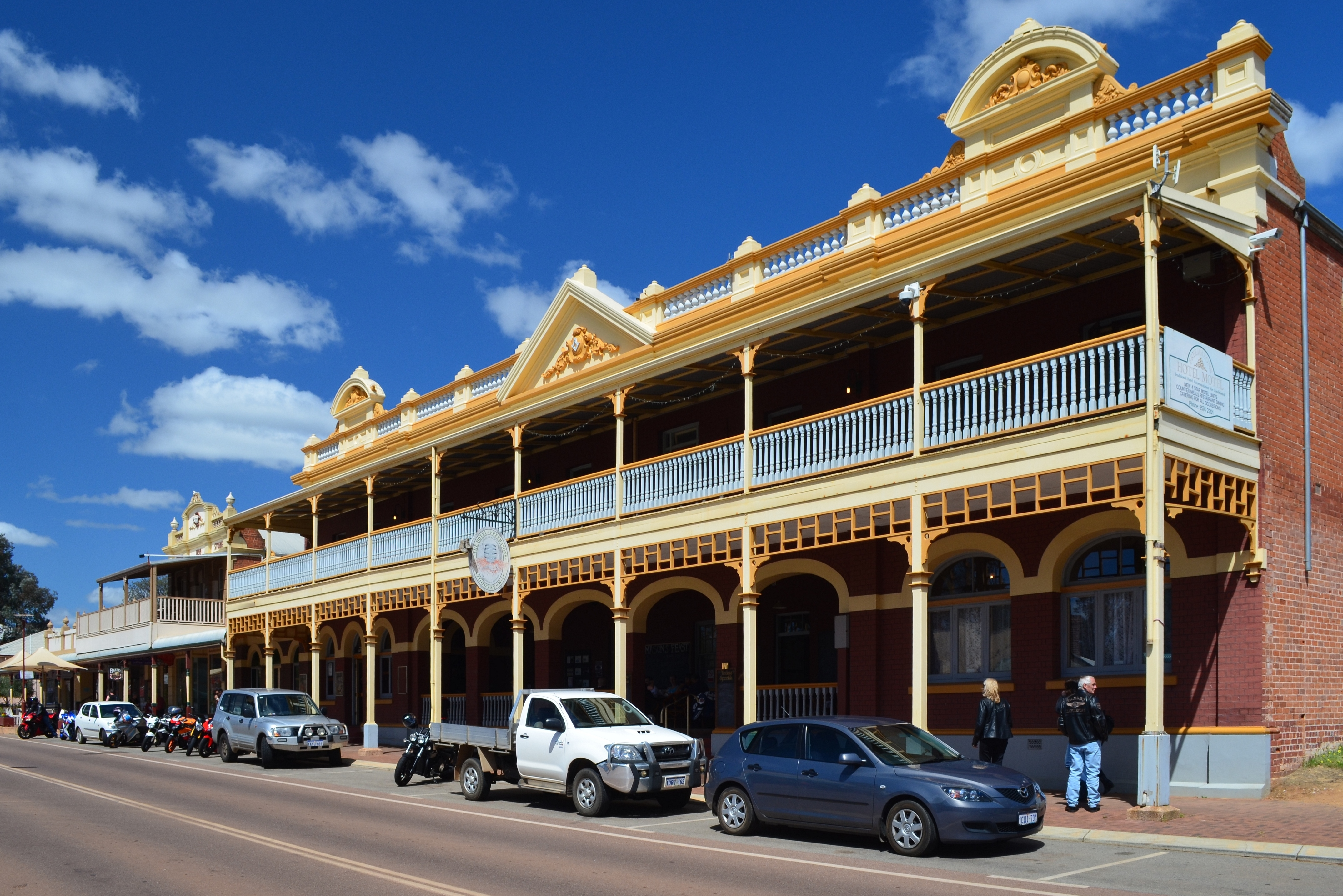 View of Stirling Terrace, Toodyay, Western Australia, with the former Unwins Store at left and the Freemasons Hotel at right.